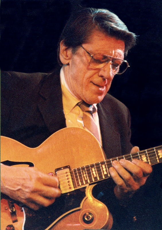 Tal Farlow